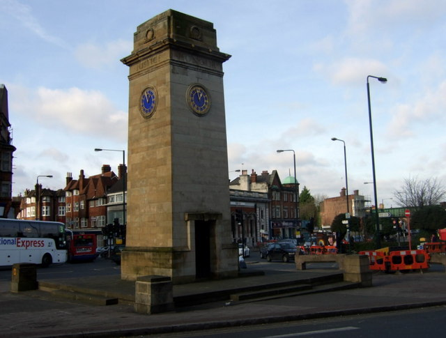 Golders Green war memorial Unveiled in 1923, the clocktower dominates the busy junction where Golders Green and North End Roads meet Finchley Road. It has a clock on each face, along with the words Justice/Honour/Loyalty/Courage.